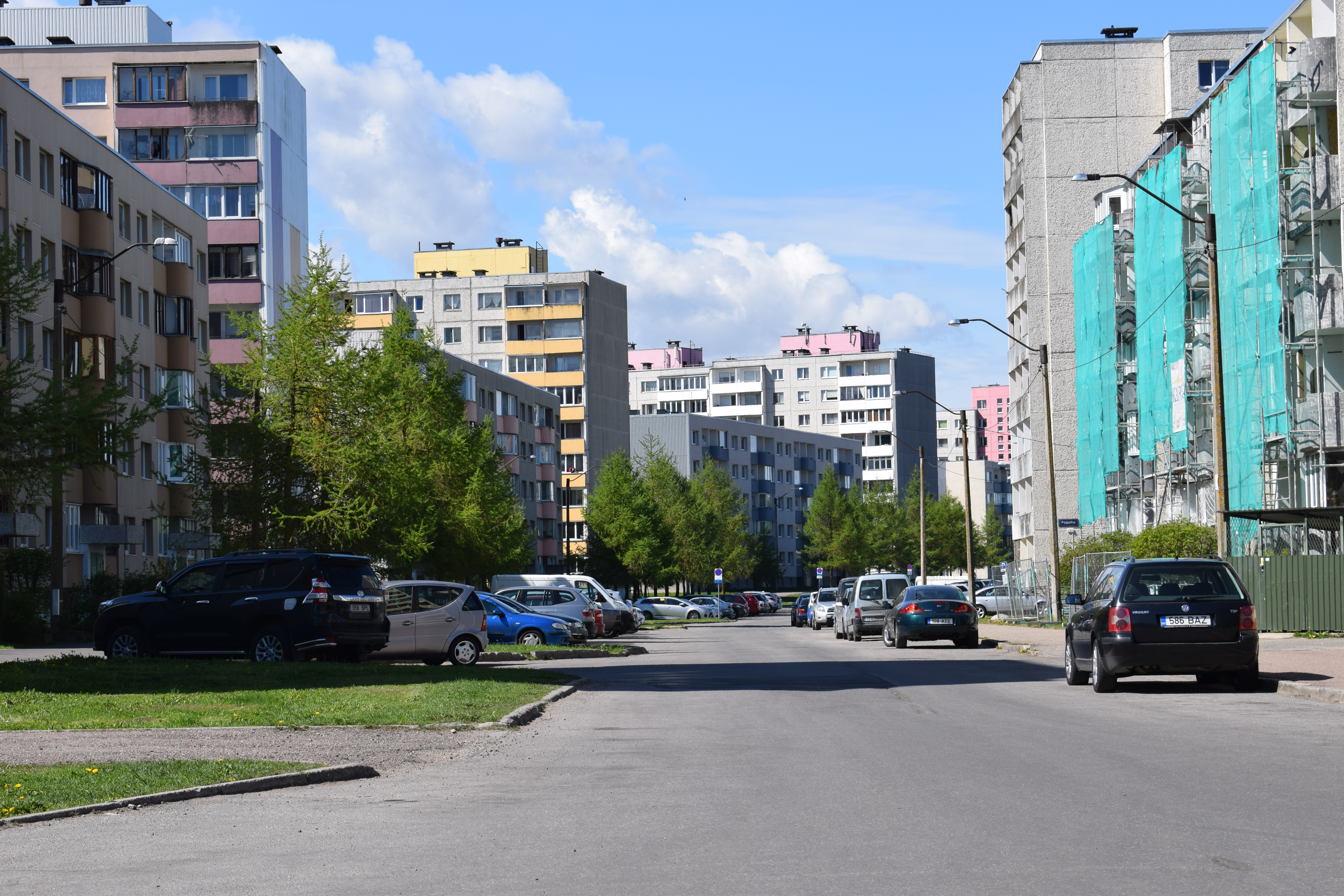 Paasiku street